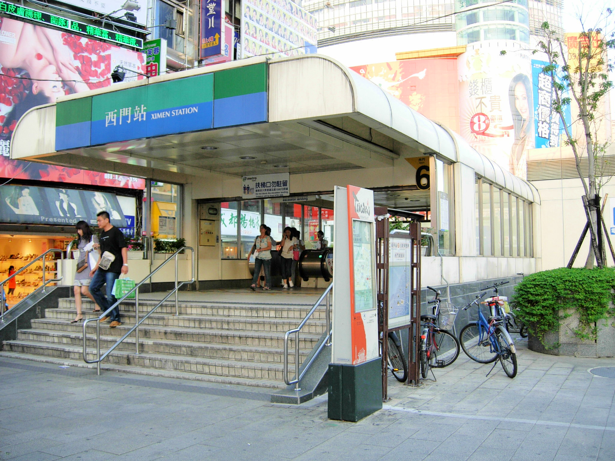 Taipei MRT Ximen Station Exit 6.